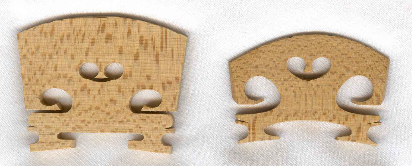 The finished bridge is a bit extreme, with more air (and less wood) in it than most. scanned Just plain Bill 17:45, 2 January 2006 (UTC)